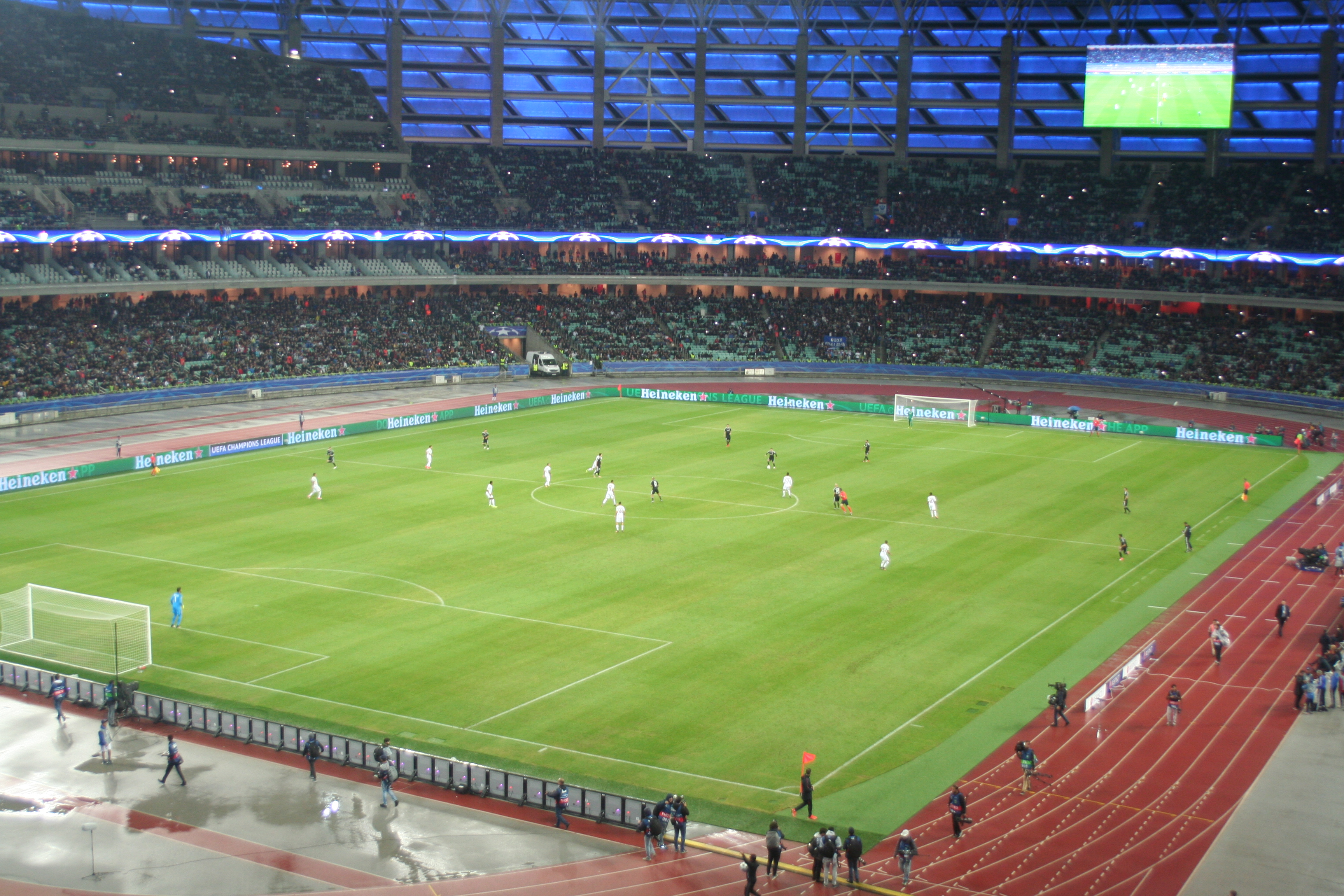 Karabakh - AS Roma, 27 September 2017